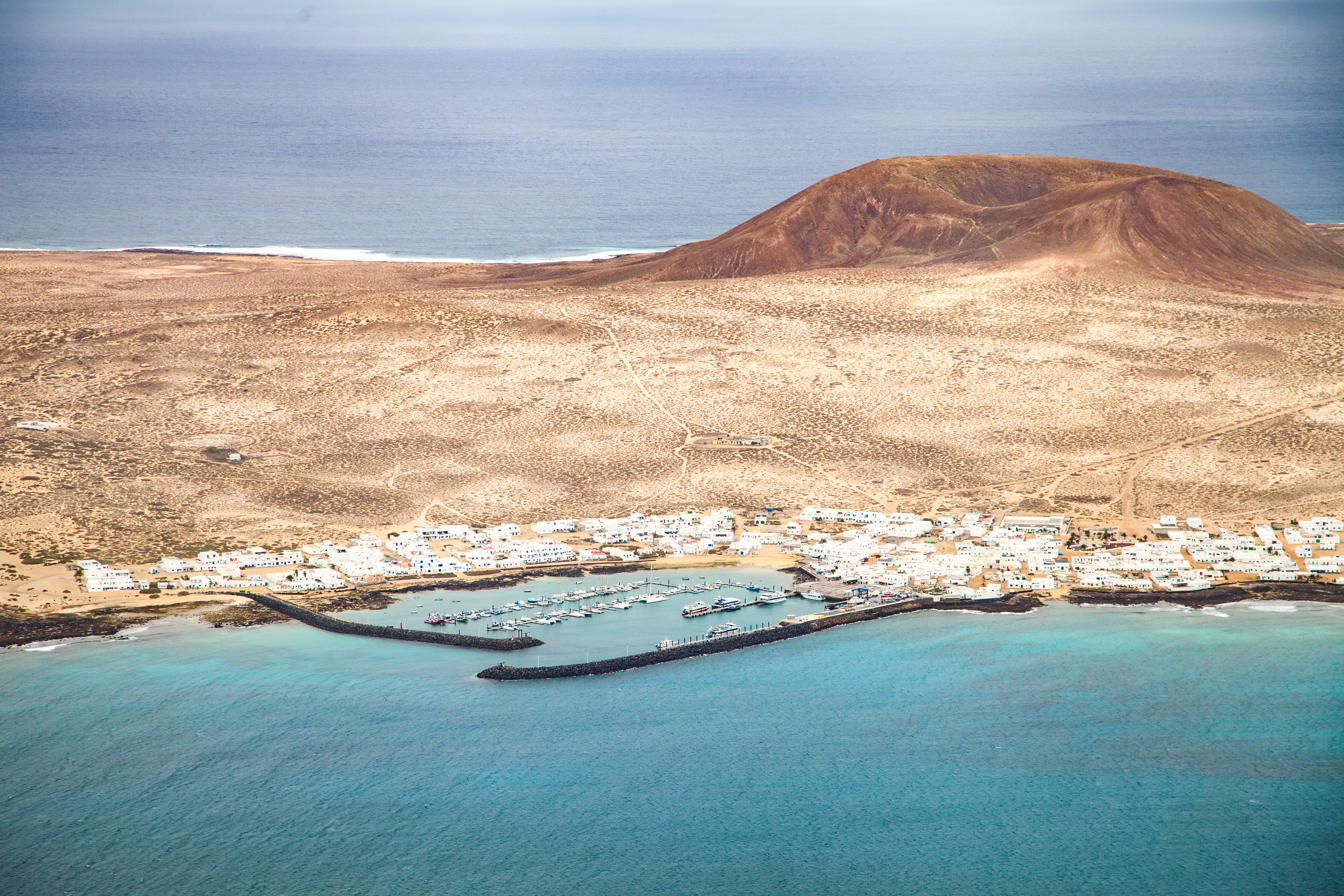 La Graciosa, Islas Canarias, España